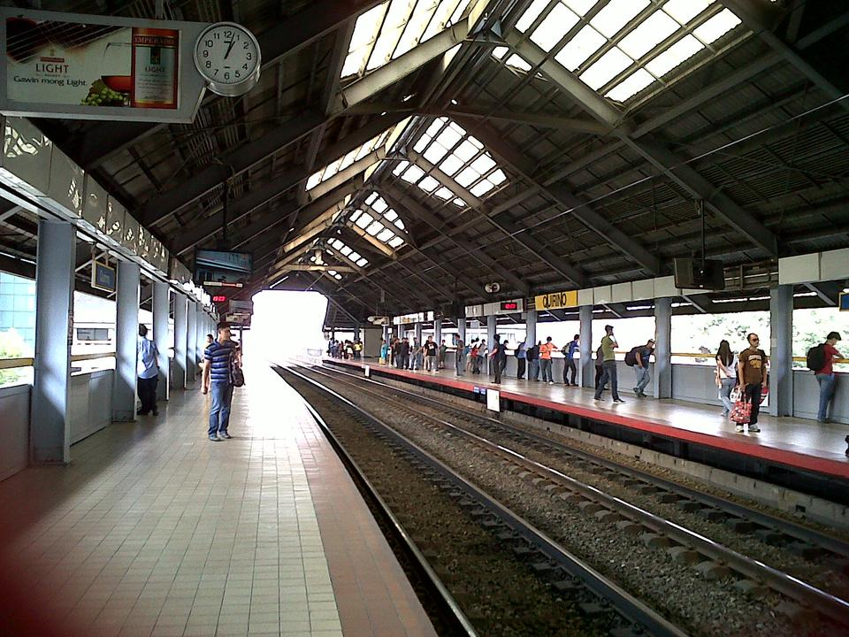 Platform Area of Quirino Station